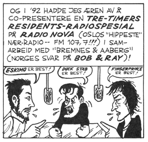 Sort Kanal diskuterer "husgudene"